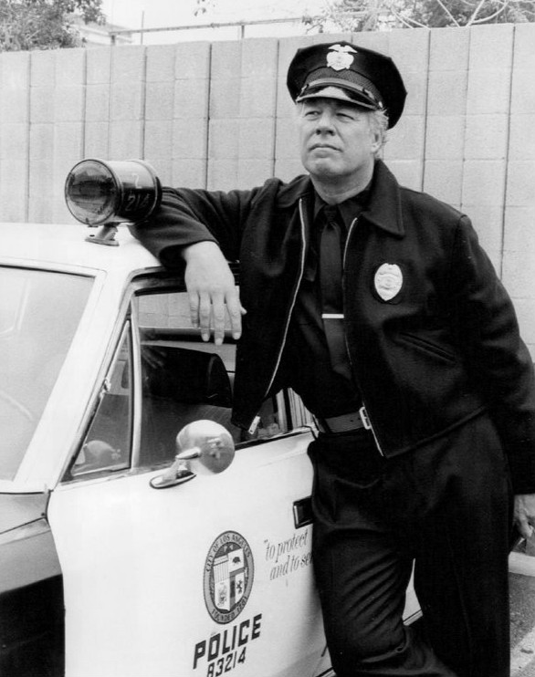 Photo of George Kennedy as Bumper Morgan from the television program The Blue Knight.